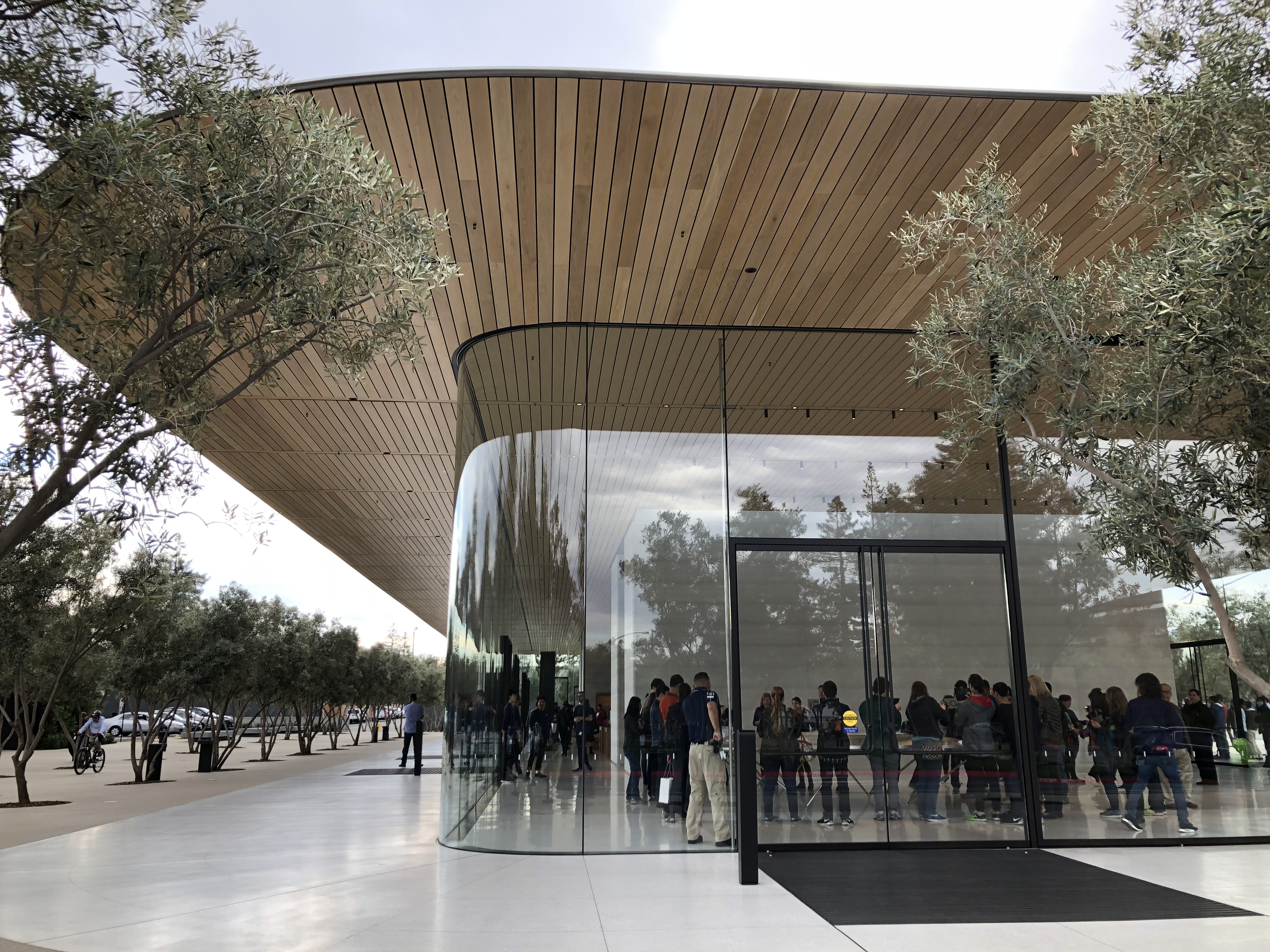 Apple Park Visitor Center on 10600 N Tantau Ave Cupertino. Visitors seen using AR (Augmented Reality) iPads for exploring Apple Park model.